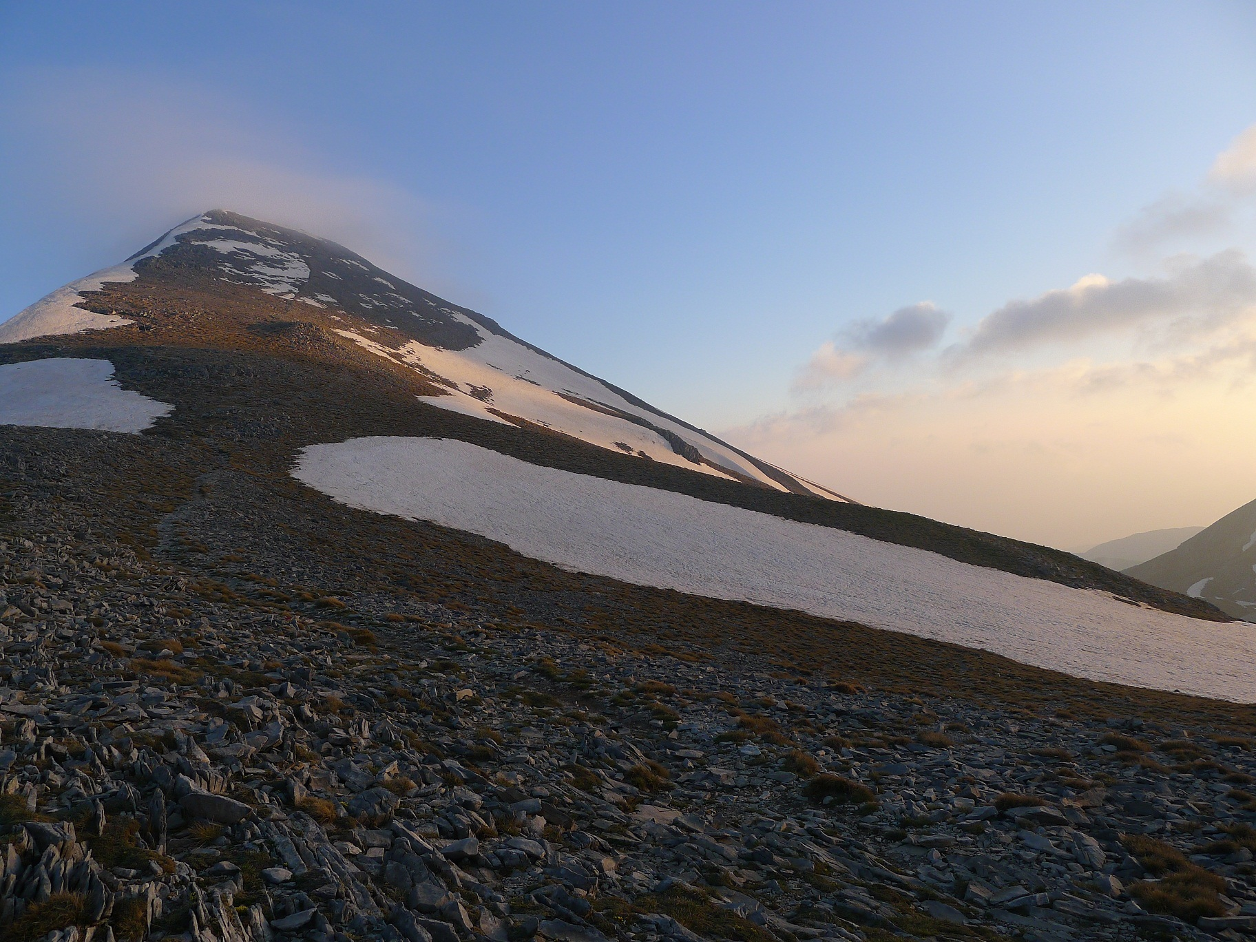 Profitis Ilias, the summit of the Taygetos mountain ridge